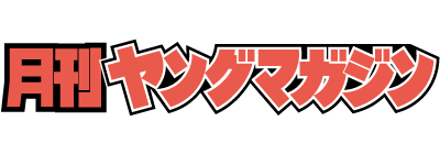 The manga magazine Gekkan Young Magazine (月刊ヤングマガジン) logo.